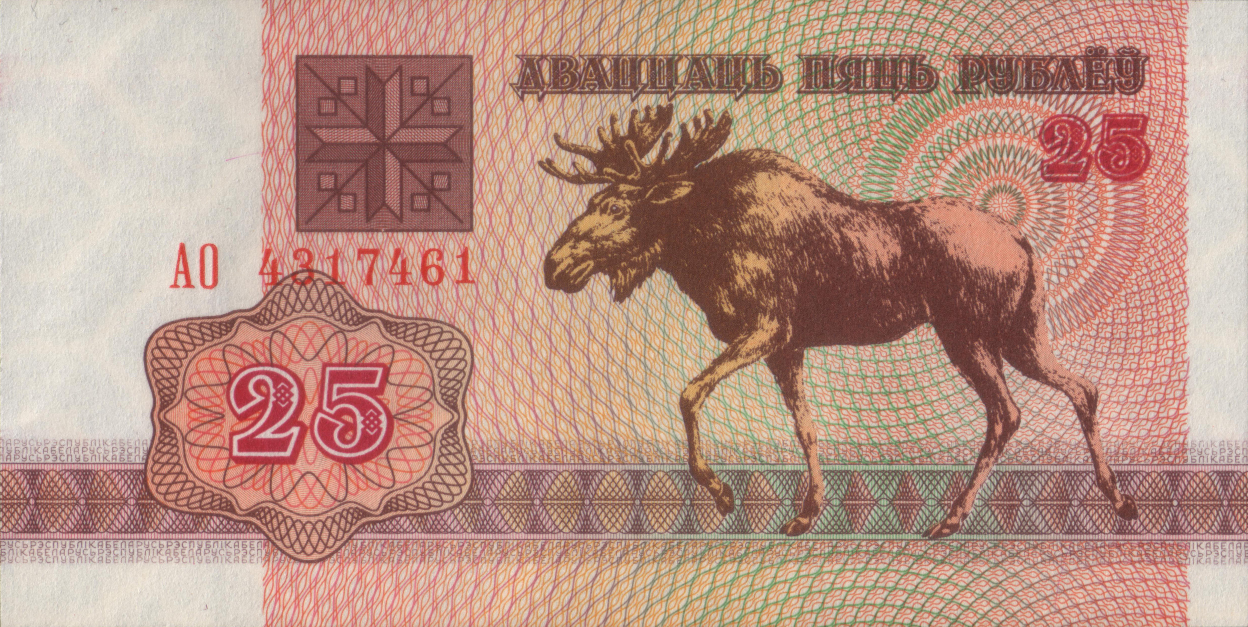 25 roubles of Belarus (1992)